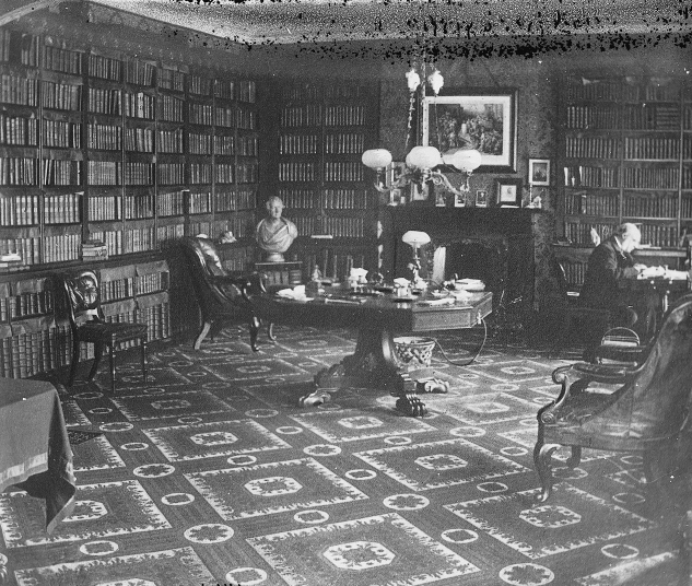 William Collis Meredith at home on the Rue Ste. Ursule, Quebec City, Canada.